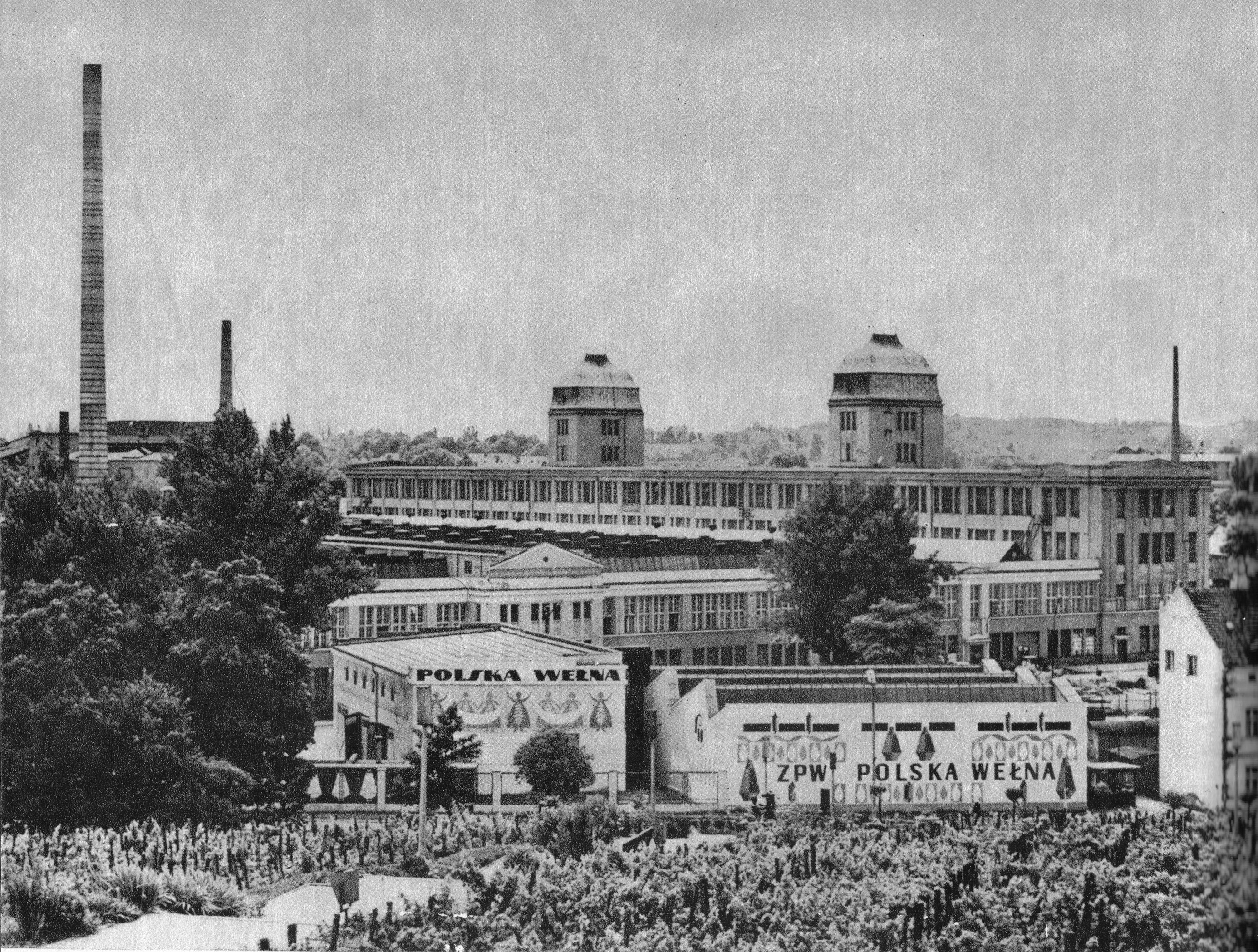 A wool factory in Zielona Góra, 1960's